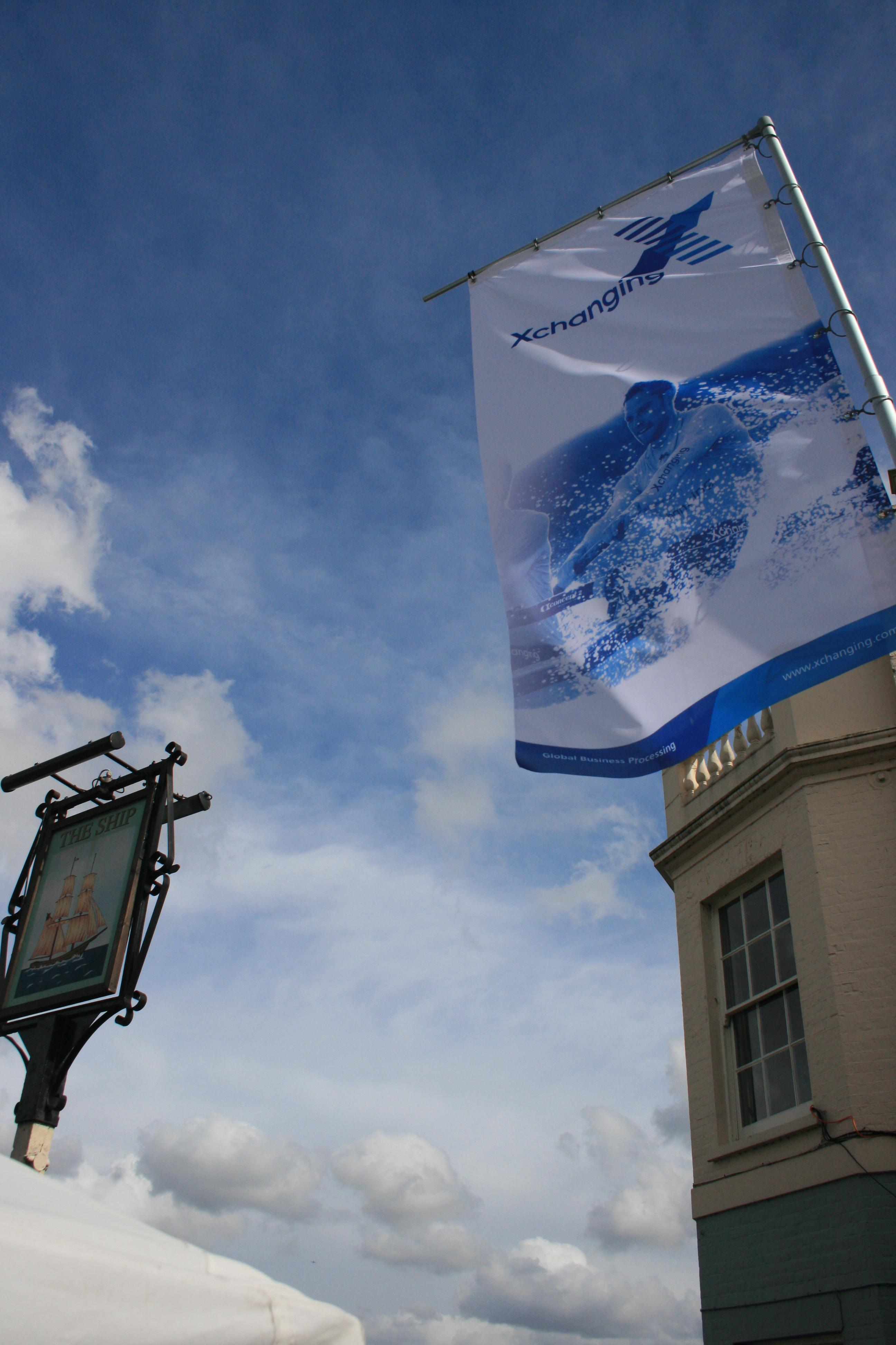 2010 University Boat Race